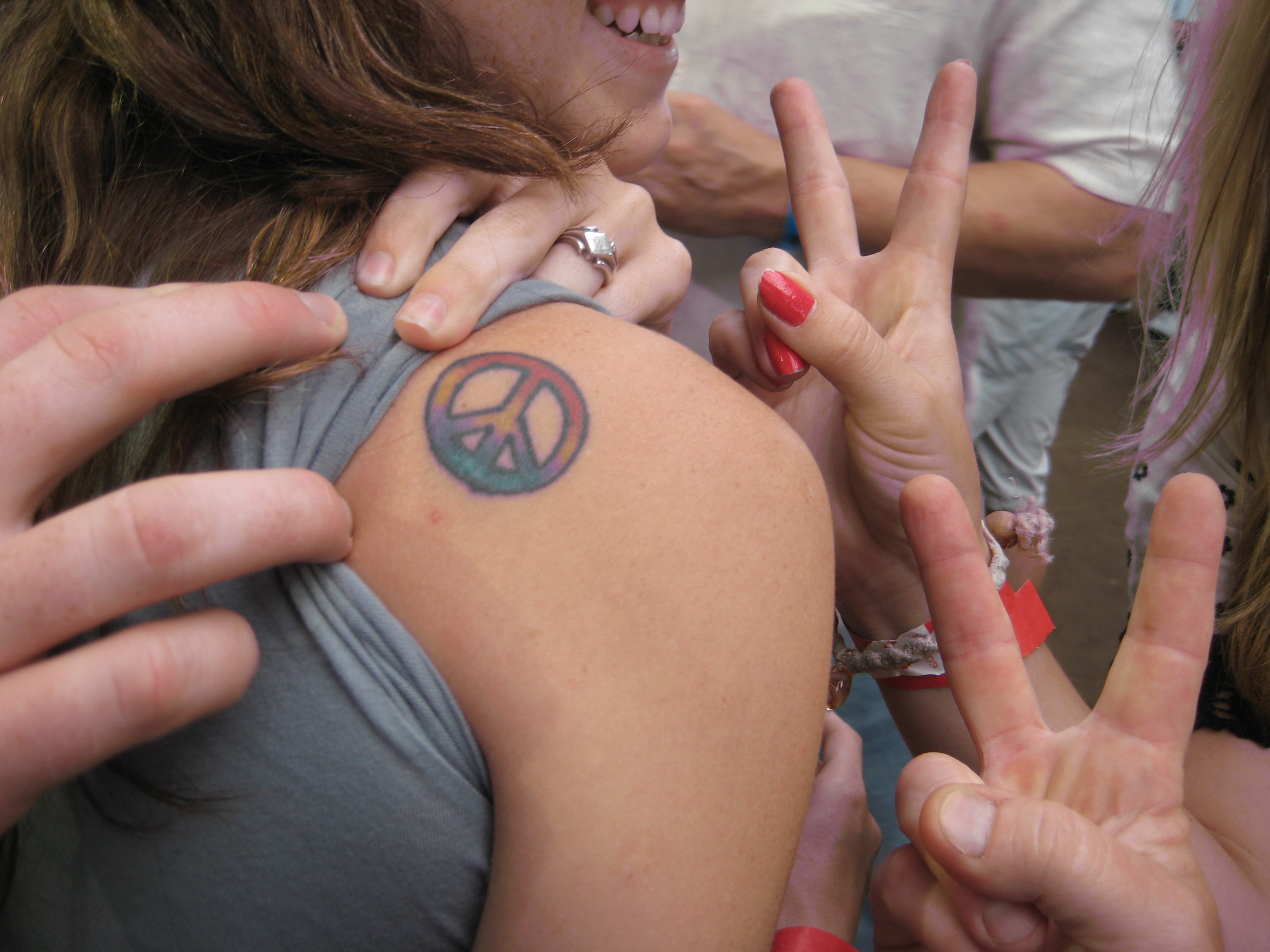 A peace tattoo and two peace signs, San Diego County Fair, Del Mar, California, 2009. Photograph by Patty Mooney, Crystal Pyrmaid Productions, San Diego, California.